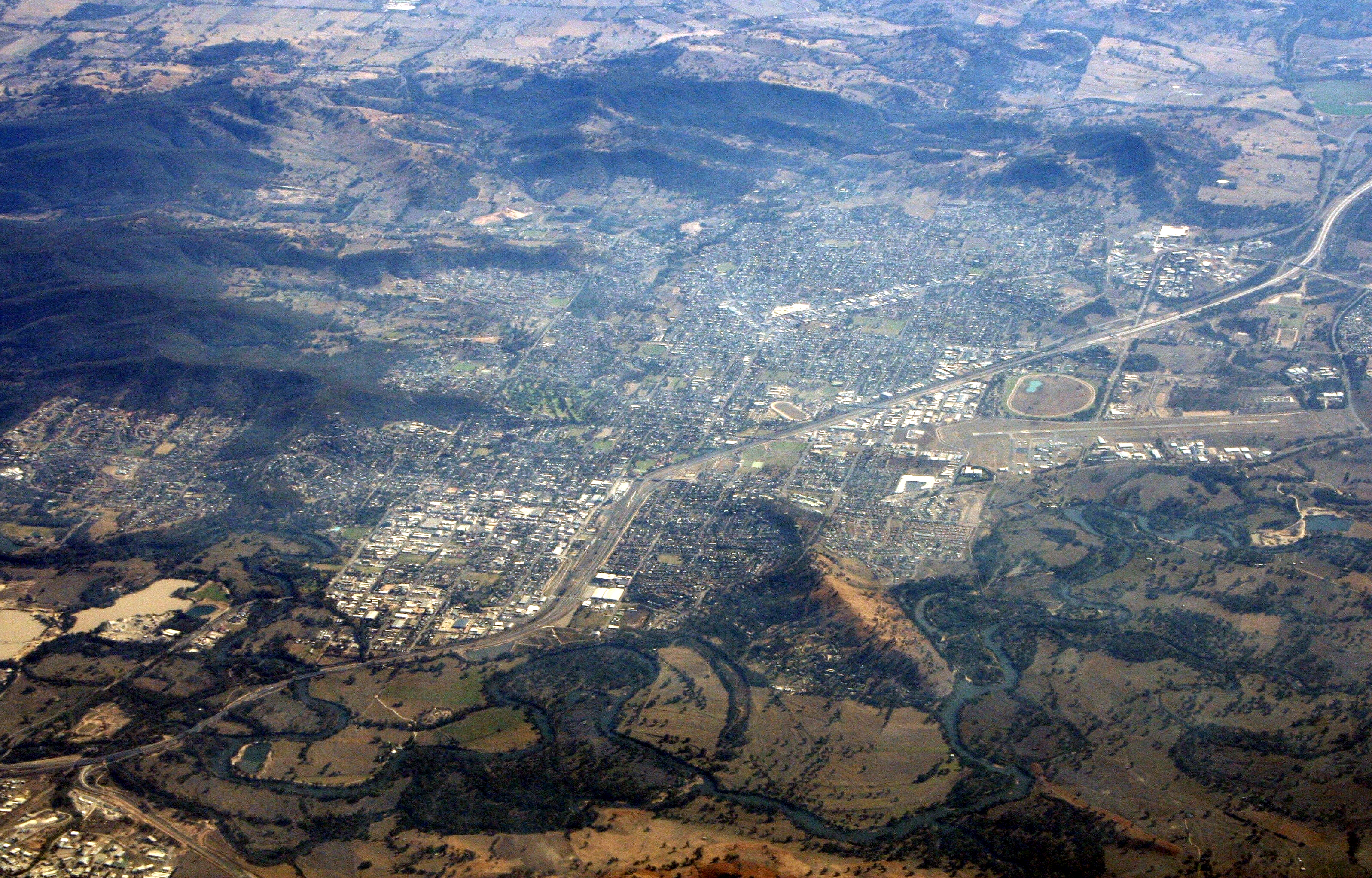 Overview of Albury, New South Wales